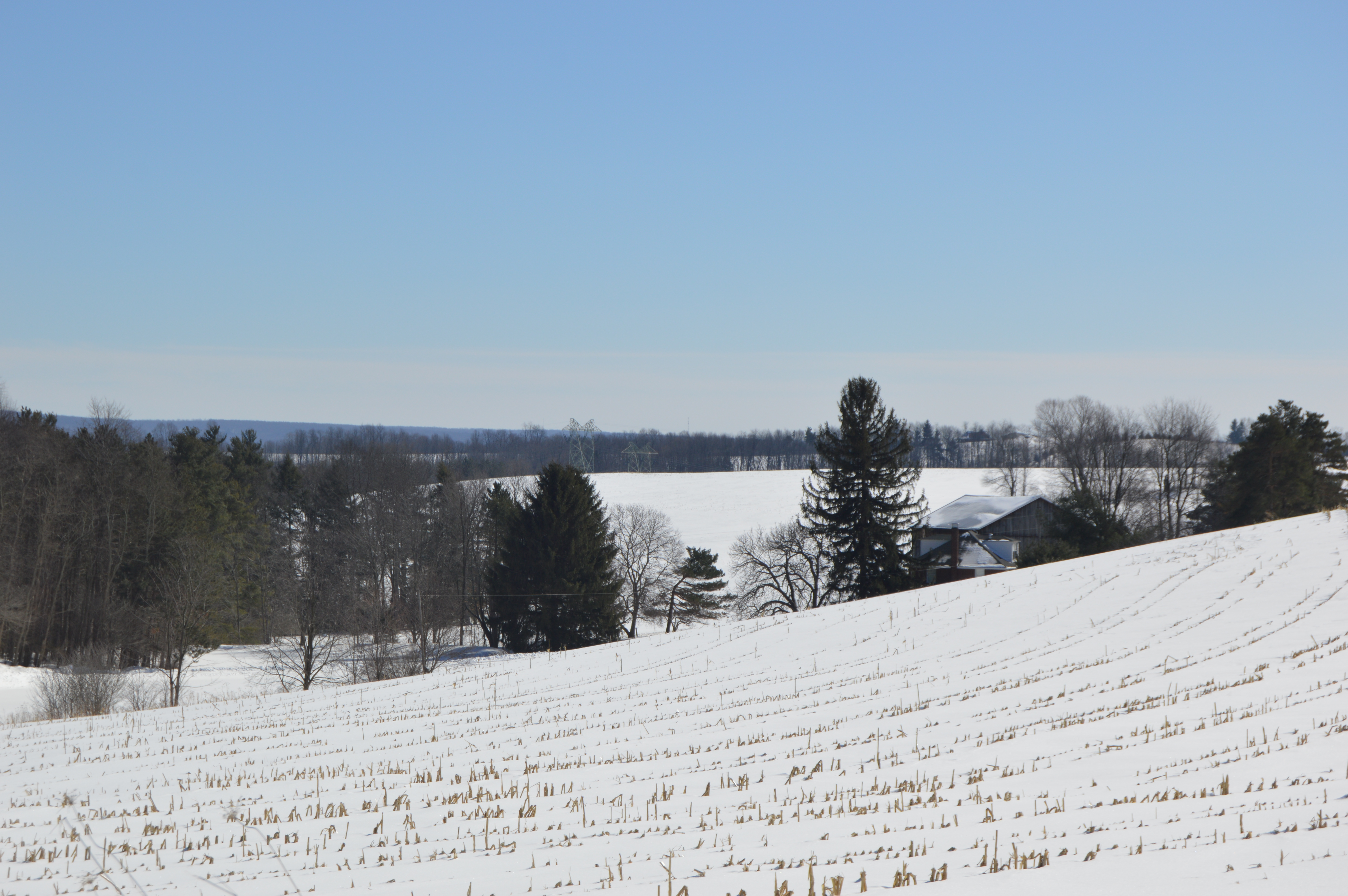 Looking south from Schoolhouse Drive northeast of Chest Springs in Clearfield Township, Cambria County, Pennsylvania, United States.